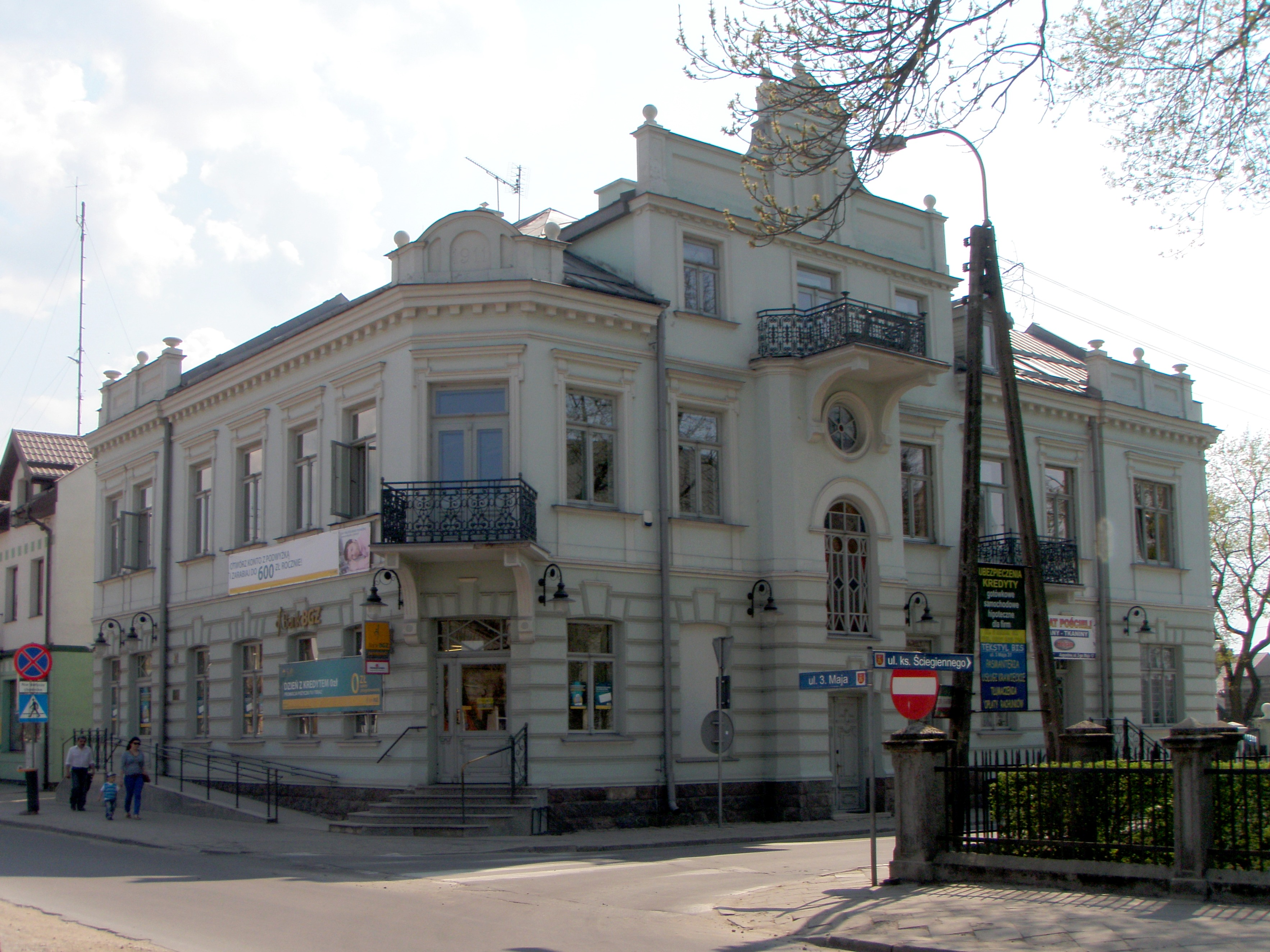 12, 3 Maja Street in Augustów, Poland